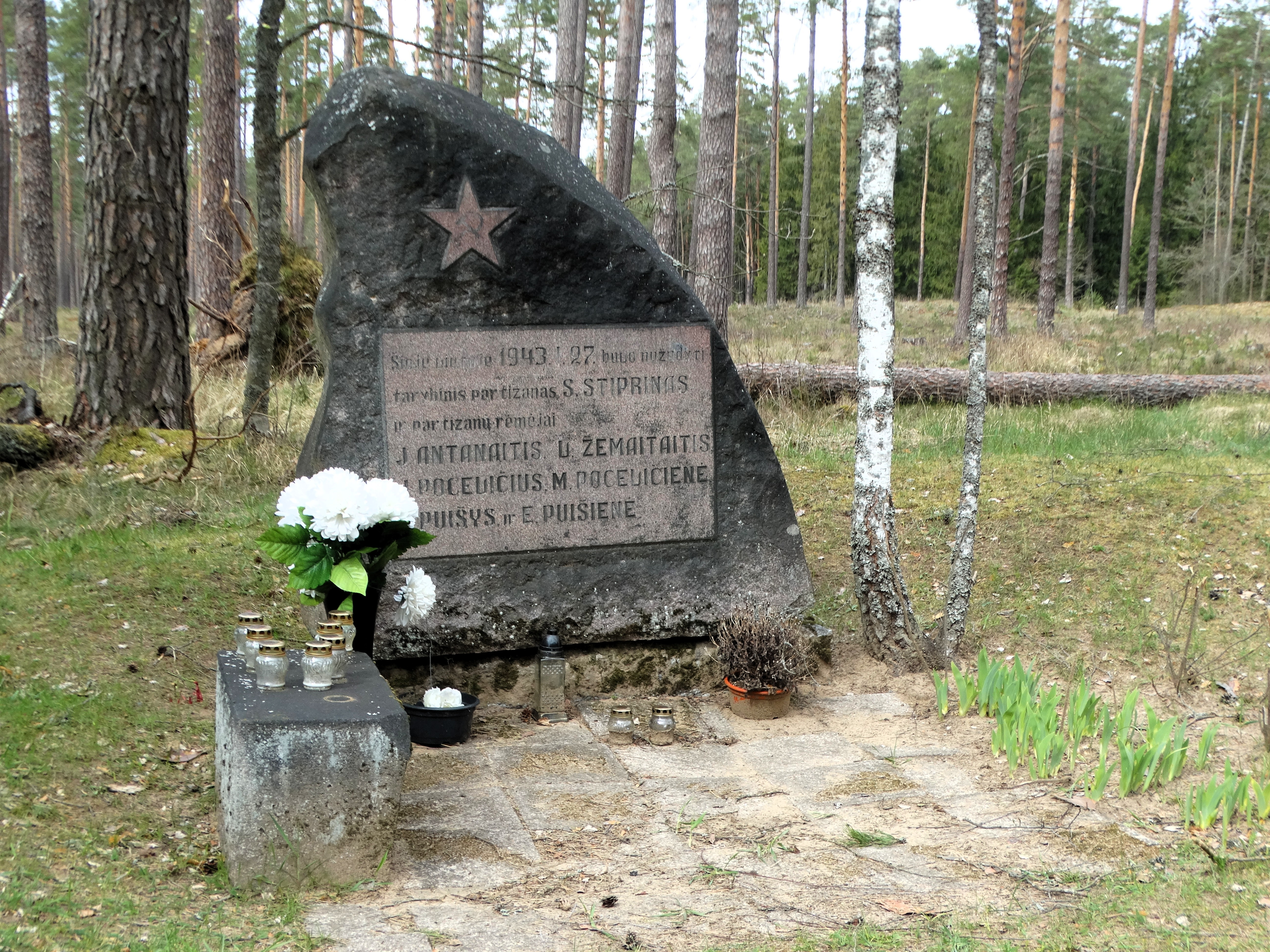 Memorial stone to the fallen Soviet partisans, Jurbarkas district, Lithuania